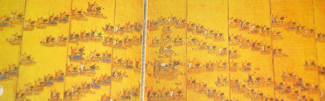 painting on bamboo panels depicting Admiral Yi Sun-sin's deployment of the crane wing formation against a Japanese fleet during the Japanese invasions of Korea (1592-1598). Source: Woongjinweewinjungi #14 Yi Sun-shin by Baek Sukgi. (C) Woongjin Publishing Co., Ltd.